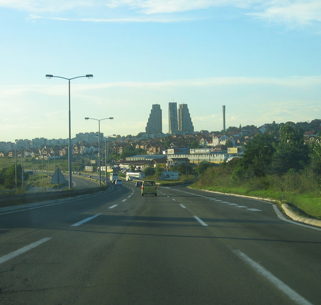 Eastern gate of Belgrade [Foto: Lazarro]